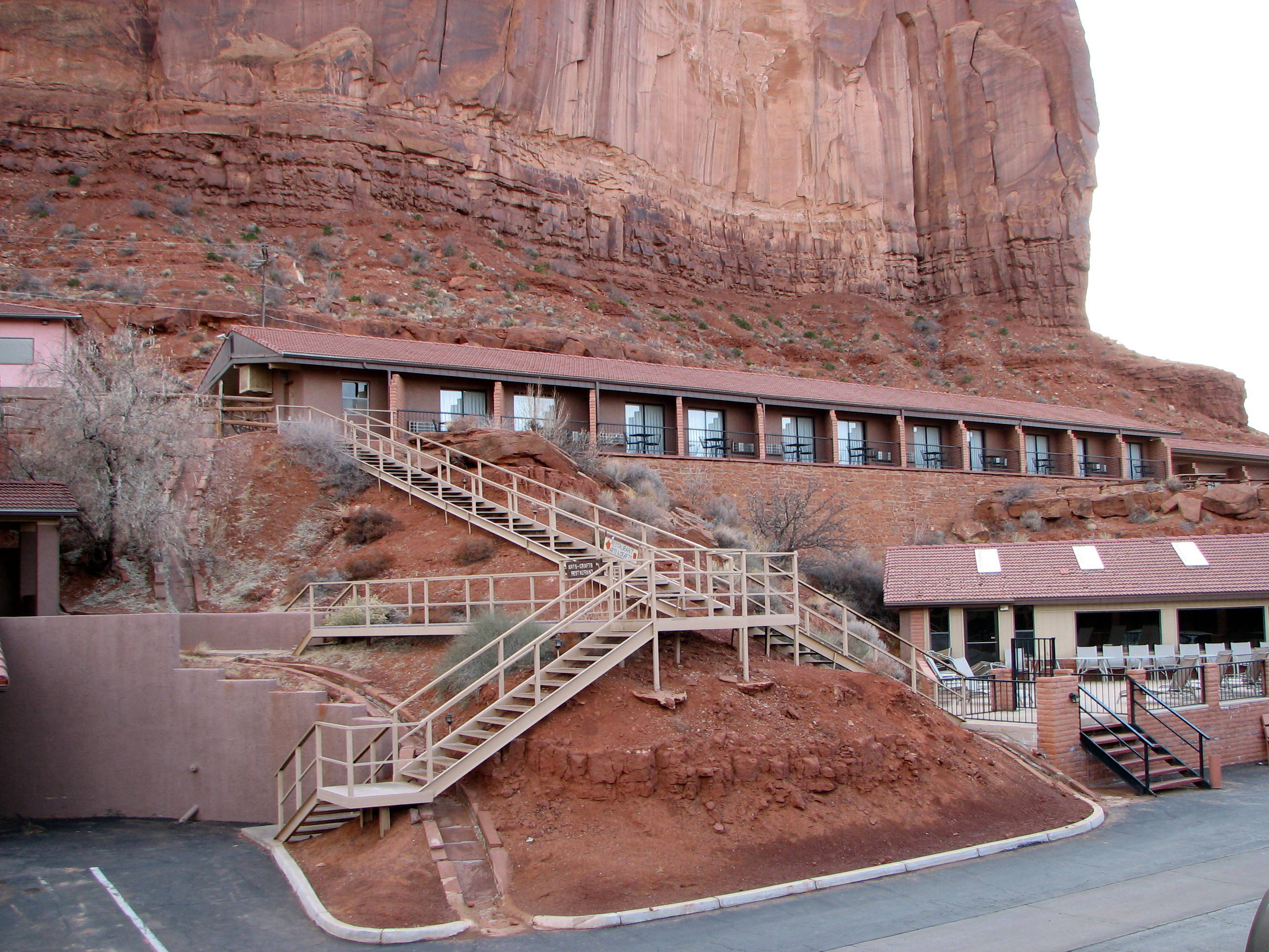 Goulding's Lodge motel near Monument Valley, Utah, USA